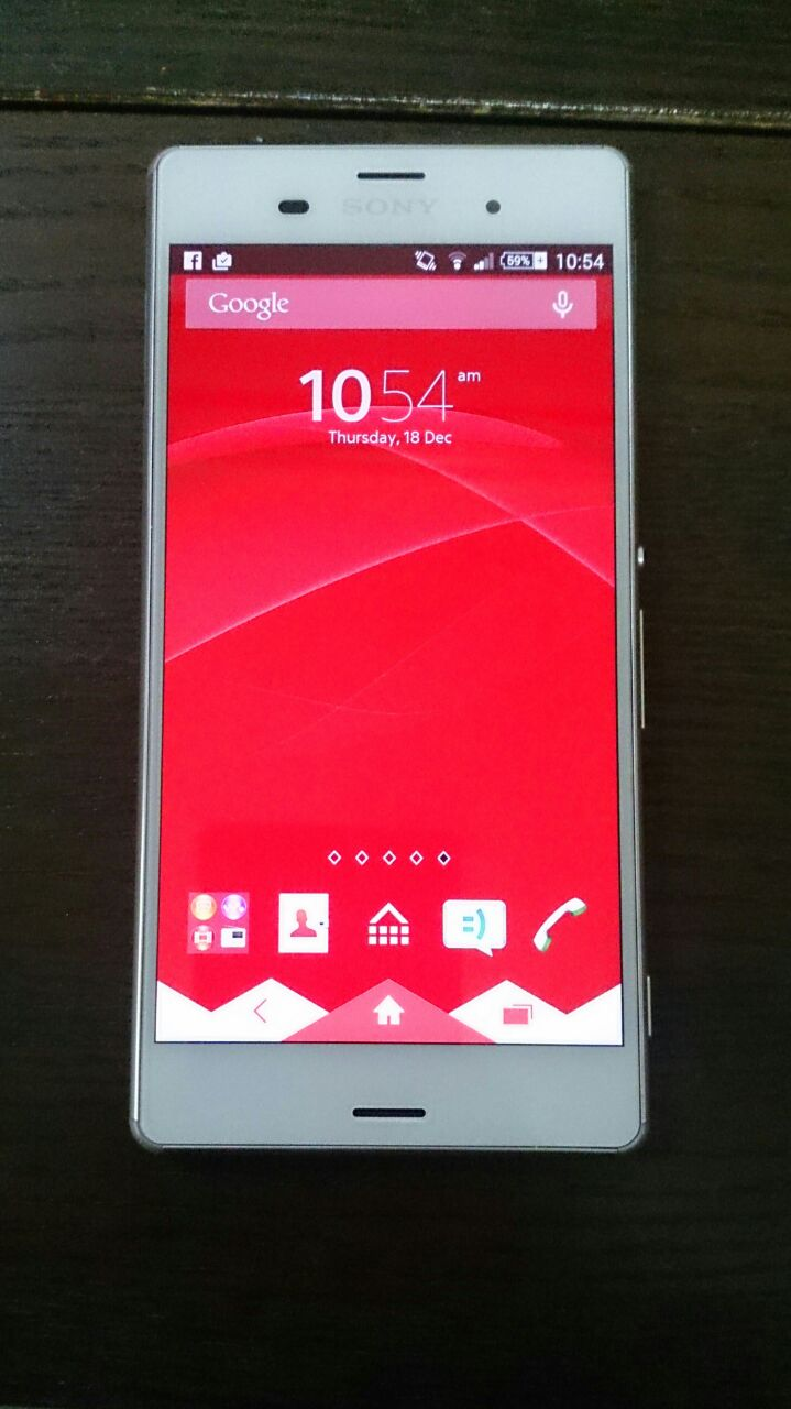 White version of the Xperia Z3, taken with Xperia Z